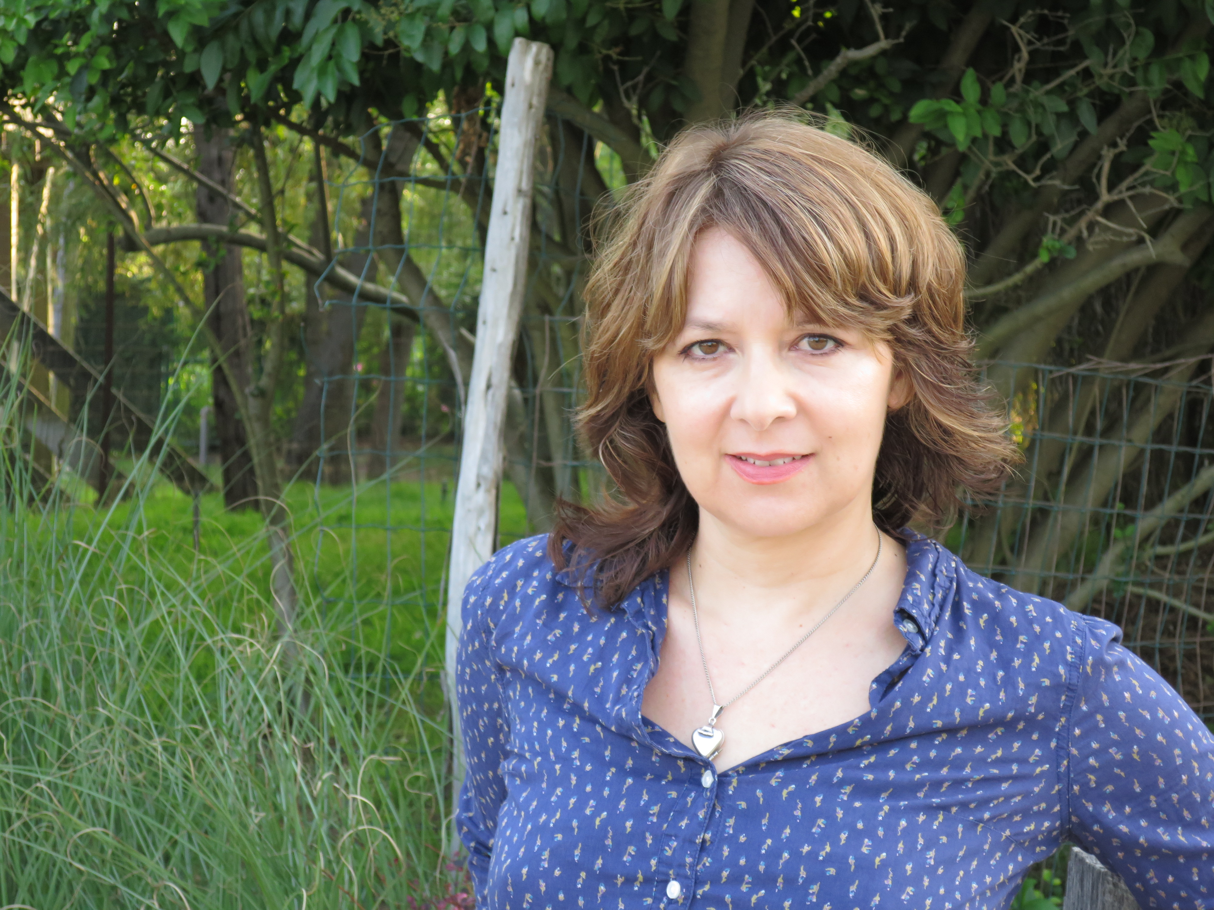 Photograph of novelist Rene Steinke.